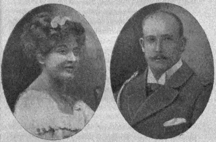 Marie Bonaparte, daughter of Roland Bonaparte and Marie Blanc (of Monte Carlo fame) and Prince George of Greece (2nd son King George I) High Commissioner of Crete before it was annexed.